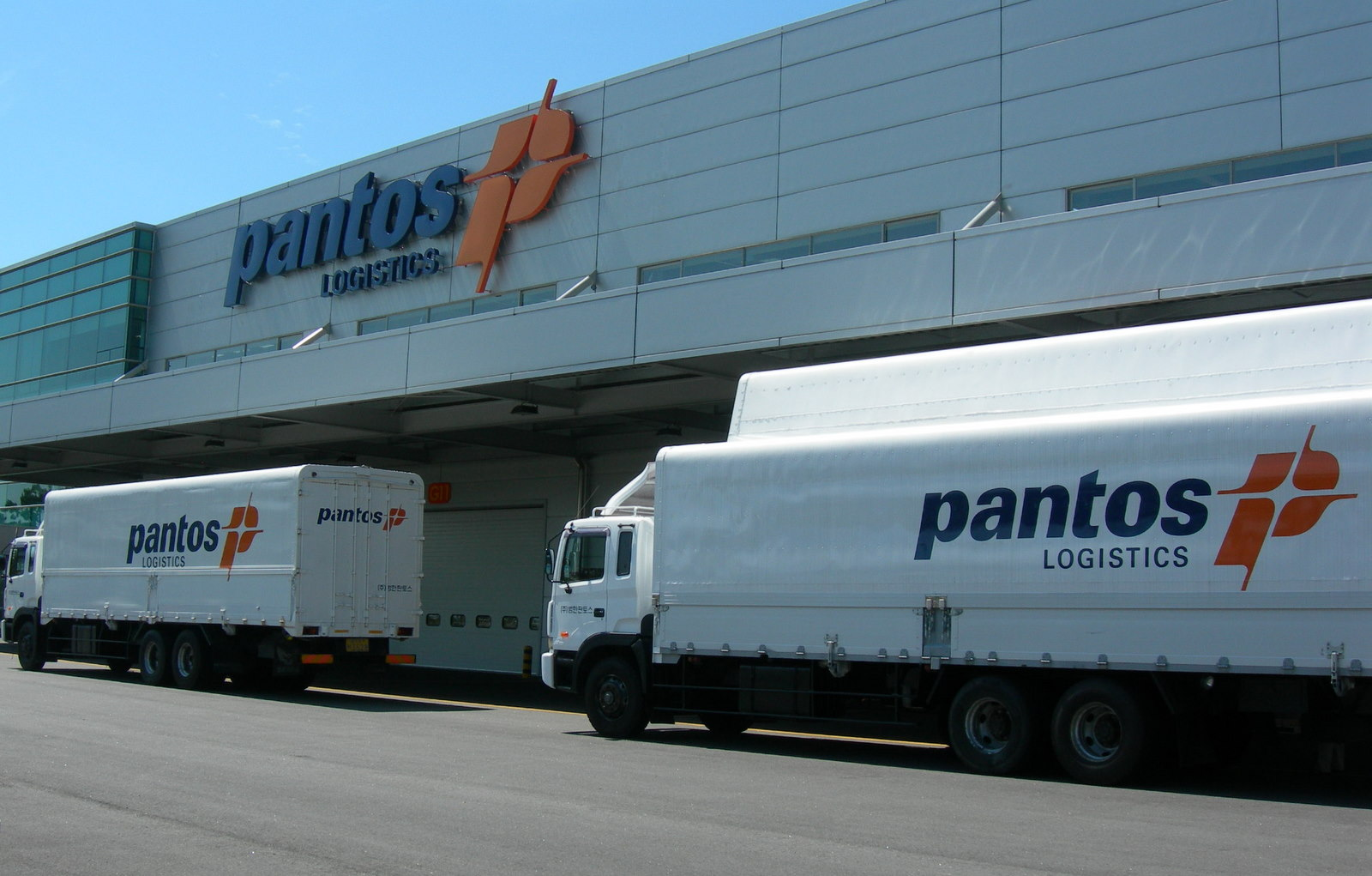 Incheon Airport Logistics Center of Pantos Logistics (Korean Logistics company)